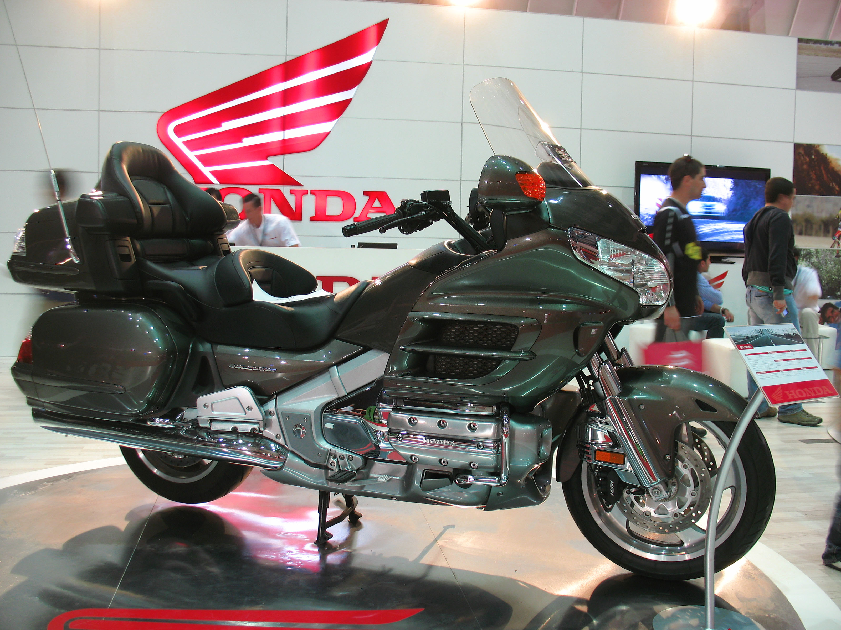 Honda Goldwing GL 1800 2010